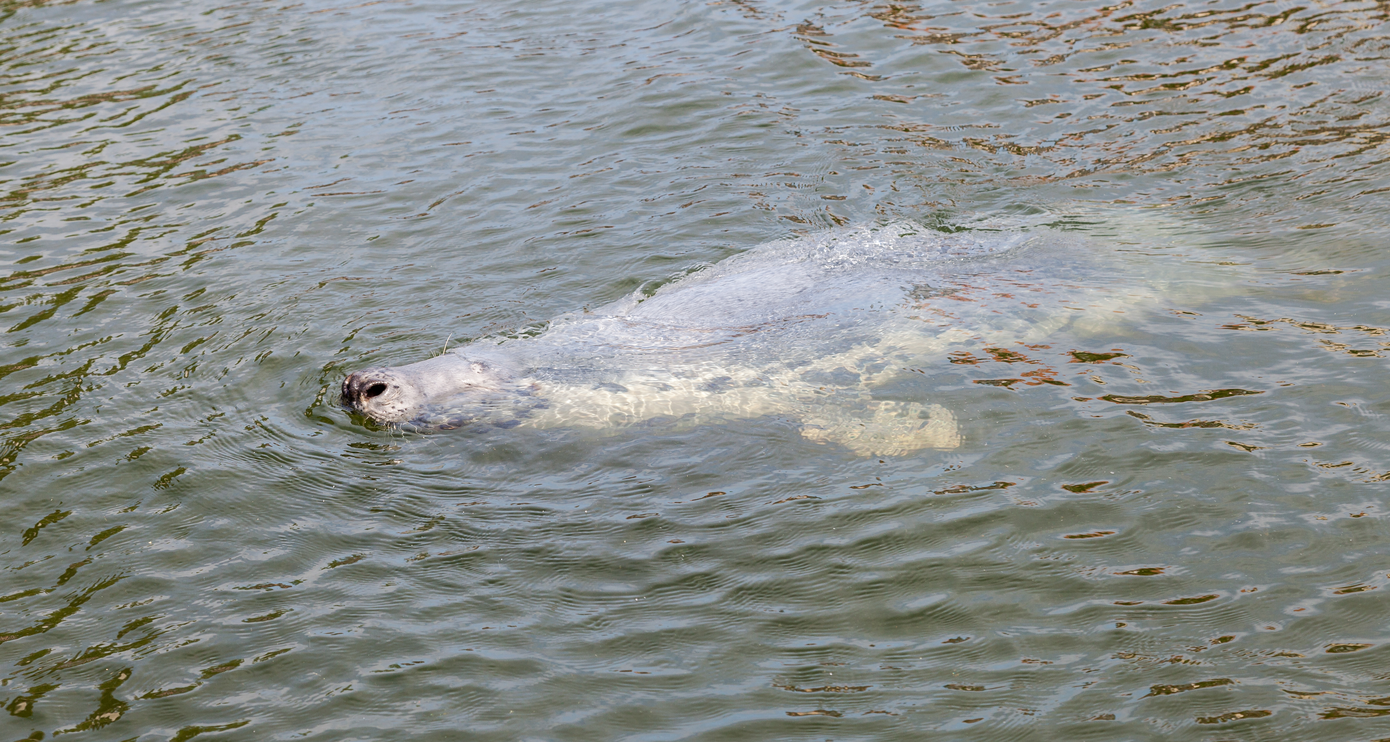 Focario de focas grises (Halichoerus grypus), Hel, Polonia